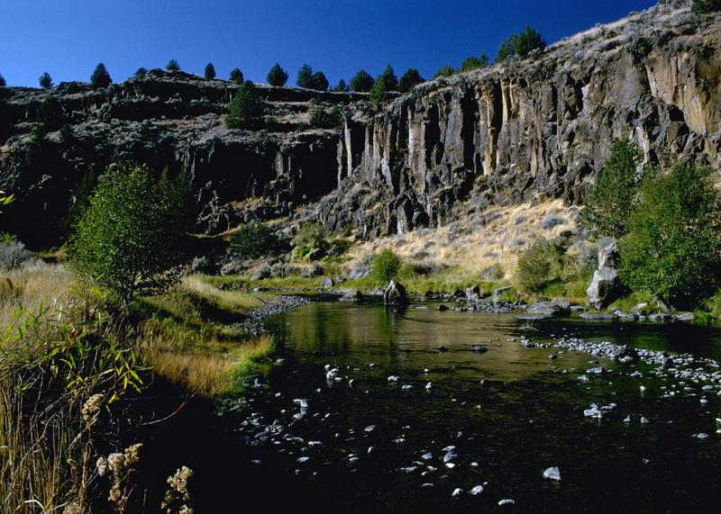 Donner und Blitzen National Wild and Scenic River above Page Springs campground in Harney County, Oregon